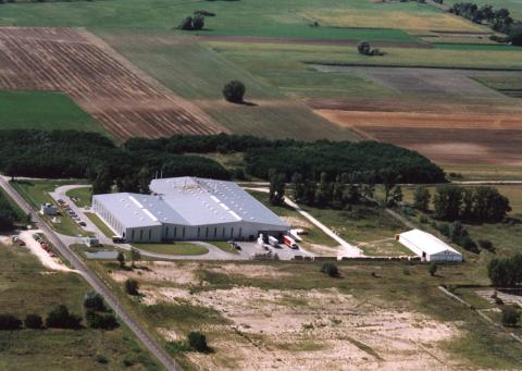 Táborfalva, Hungary, aerialphotography